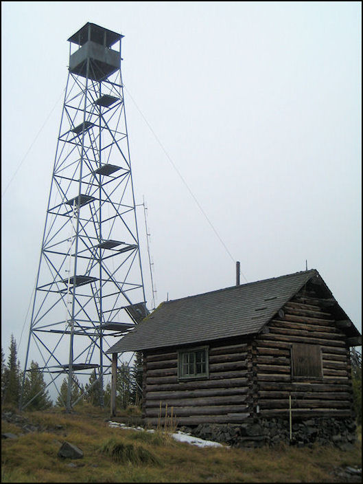 Lookout